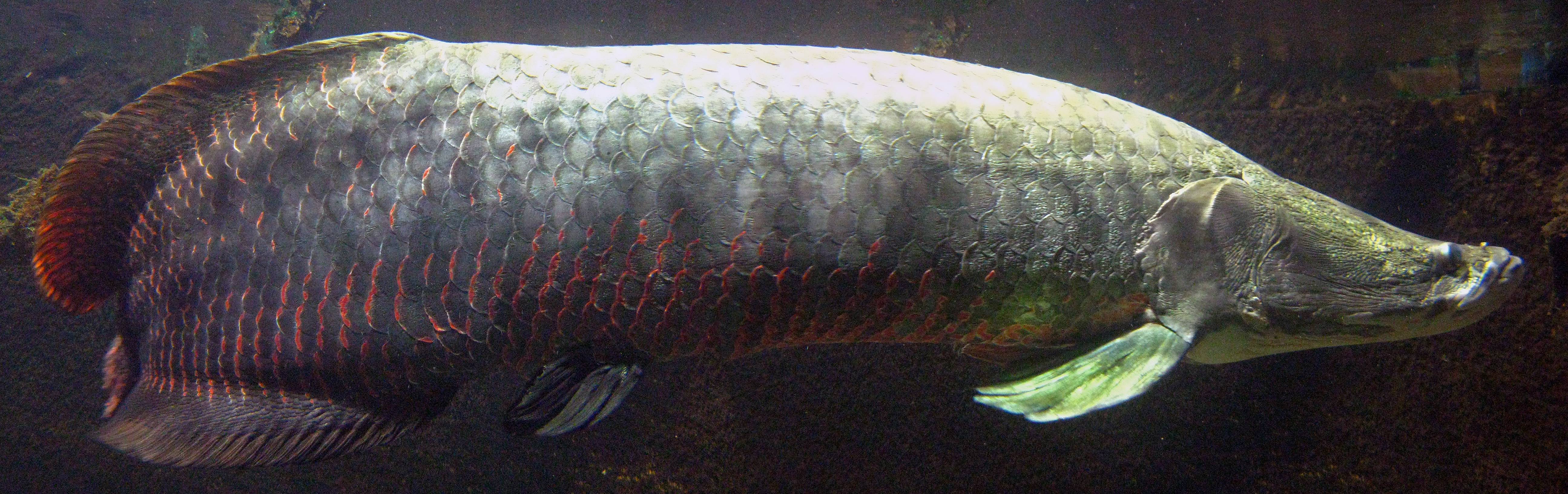 Arapaima gigas, Zoo Cologne